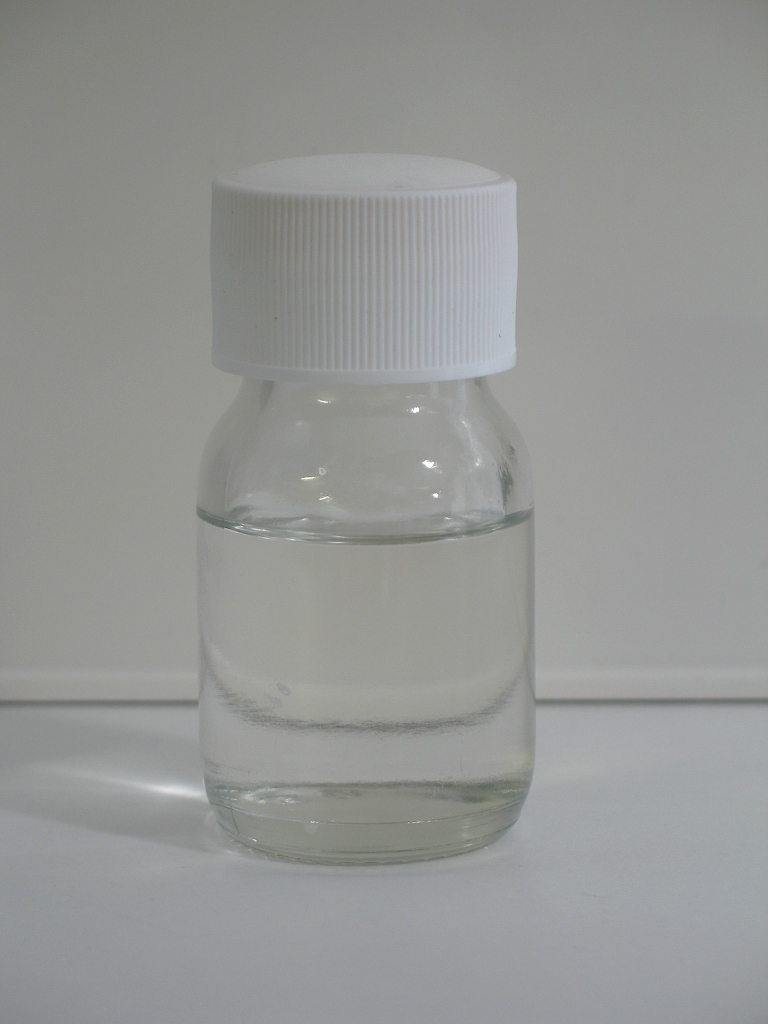 25 milliliters of acetyl chloride, a liquid at room temperature